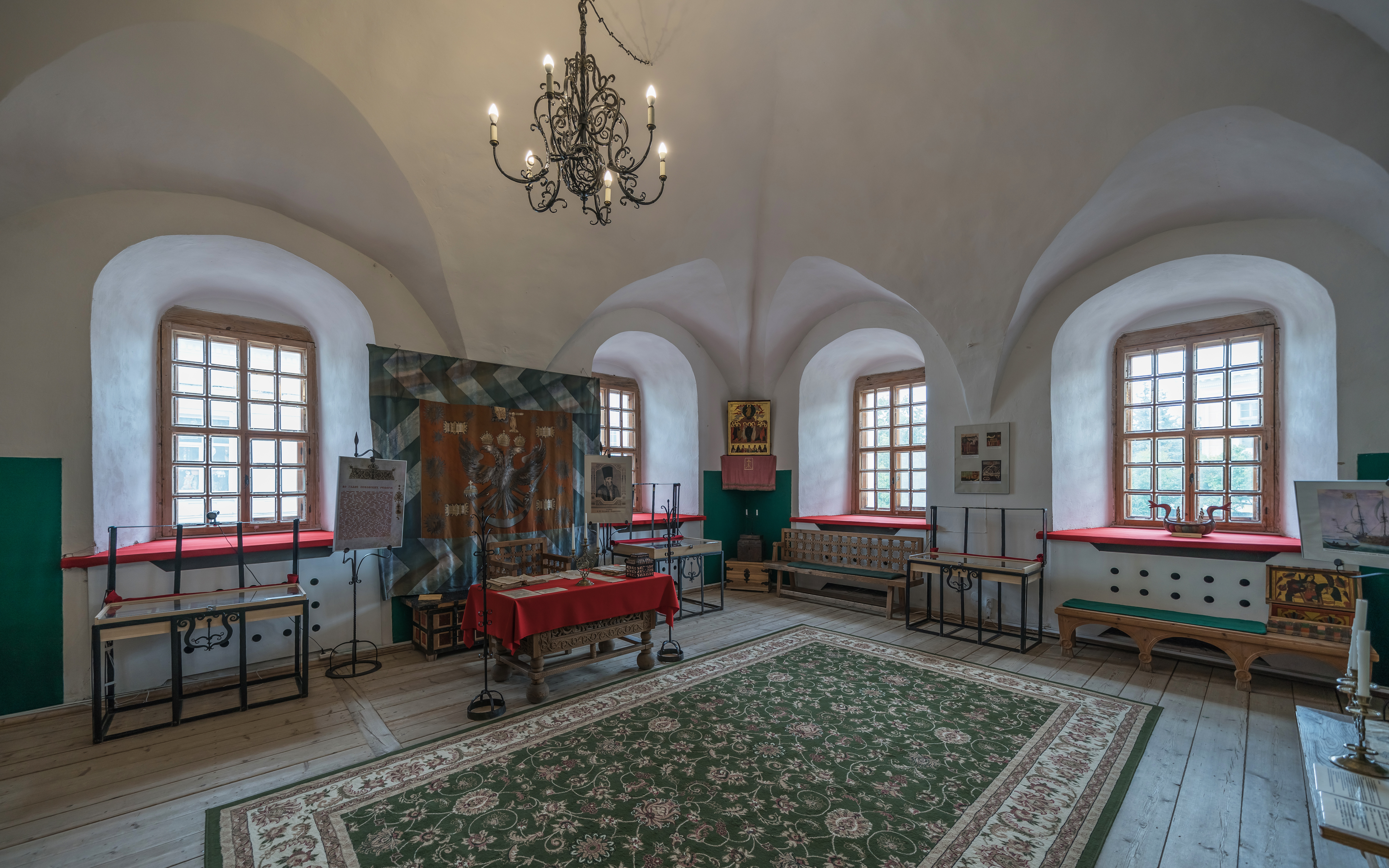 Interior (restored) of the Prikaz House at the Kremlin in Pskov, Russia